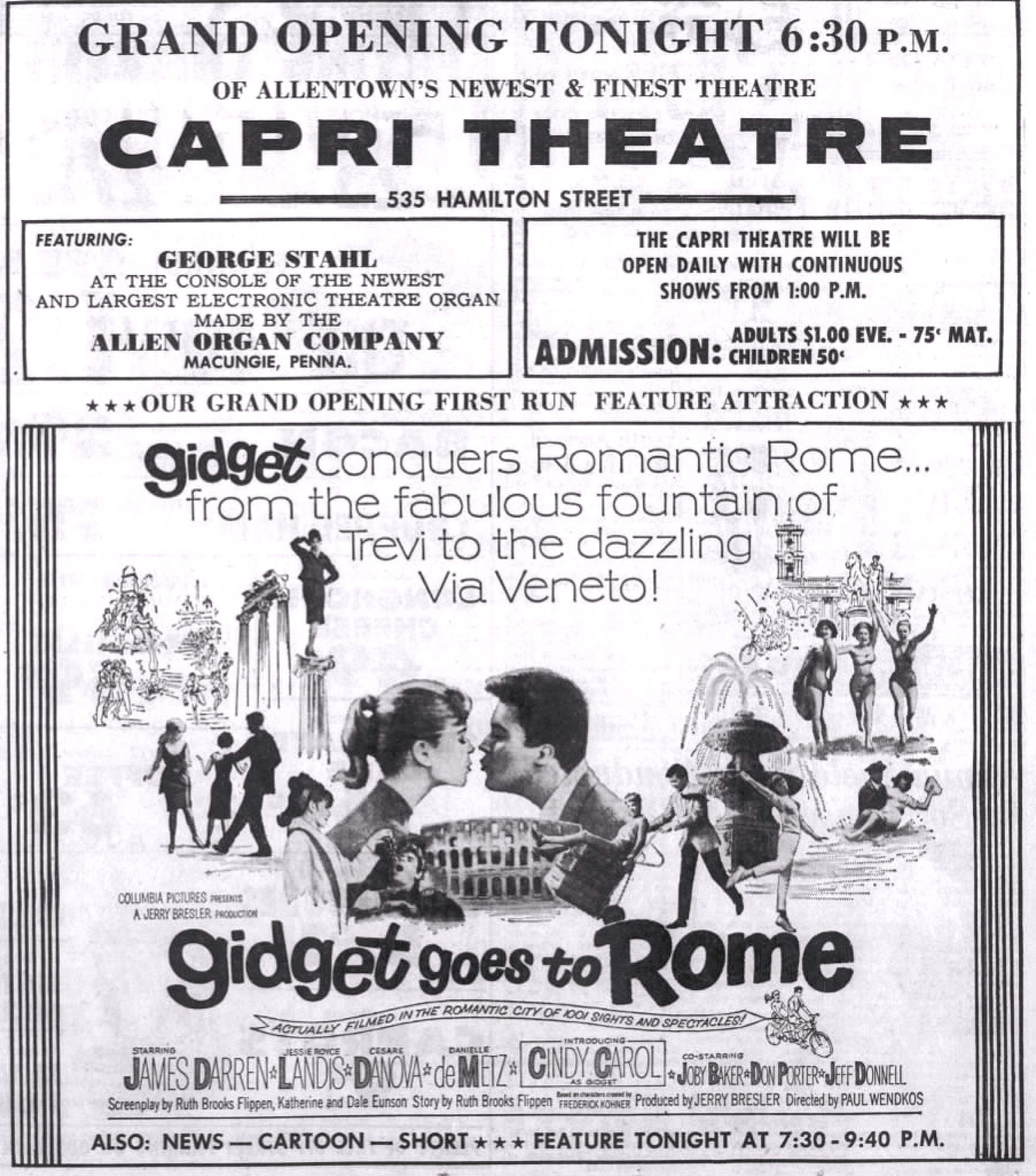 Capri Theater Opening advertisement, for the American film Gidget Goes to Rome - 7 Aug. 1963 Morning Call, Allentown PA